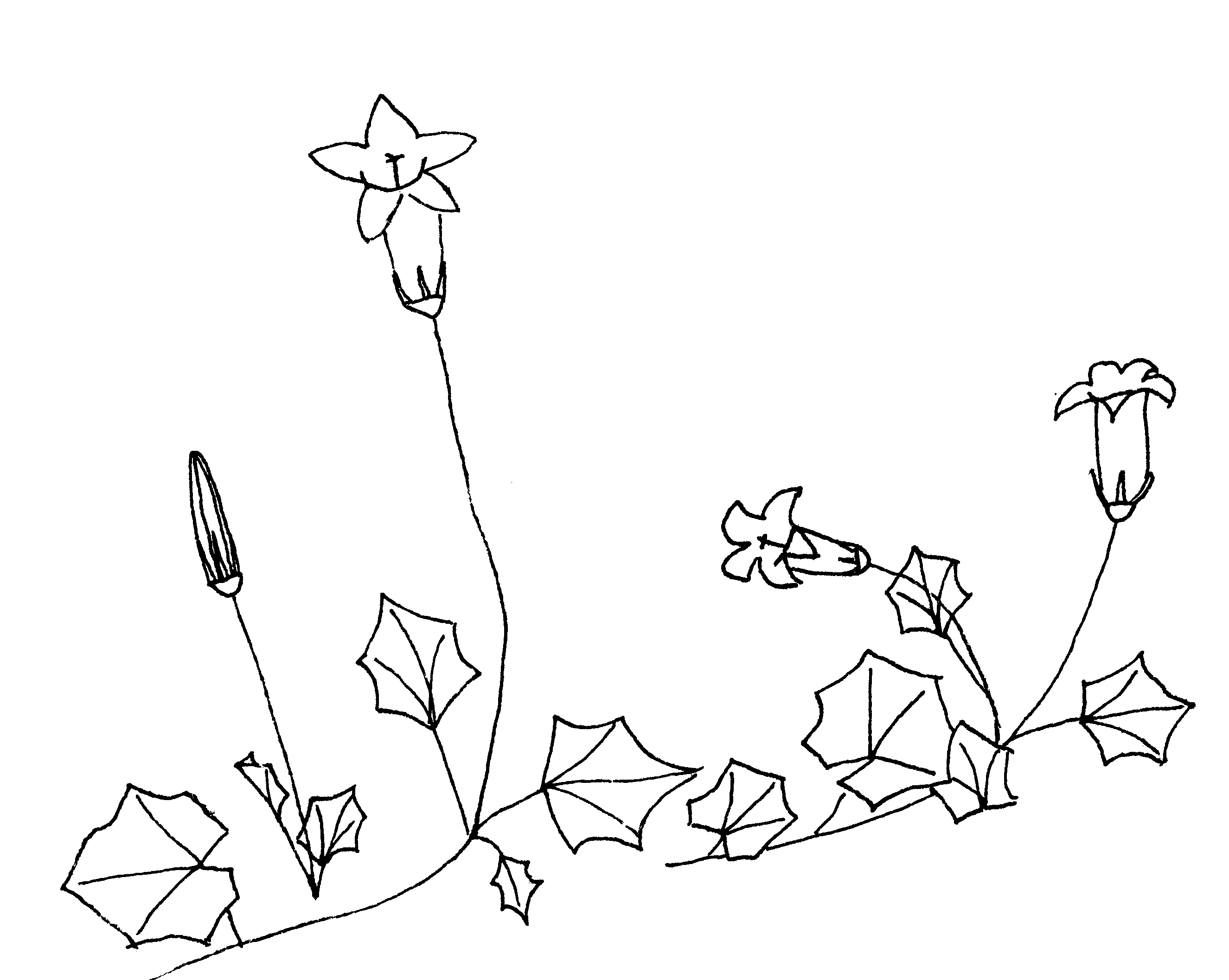 Pen drawing on paper by Elly Waterman